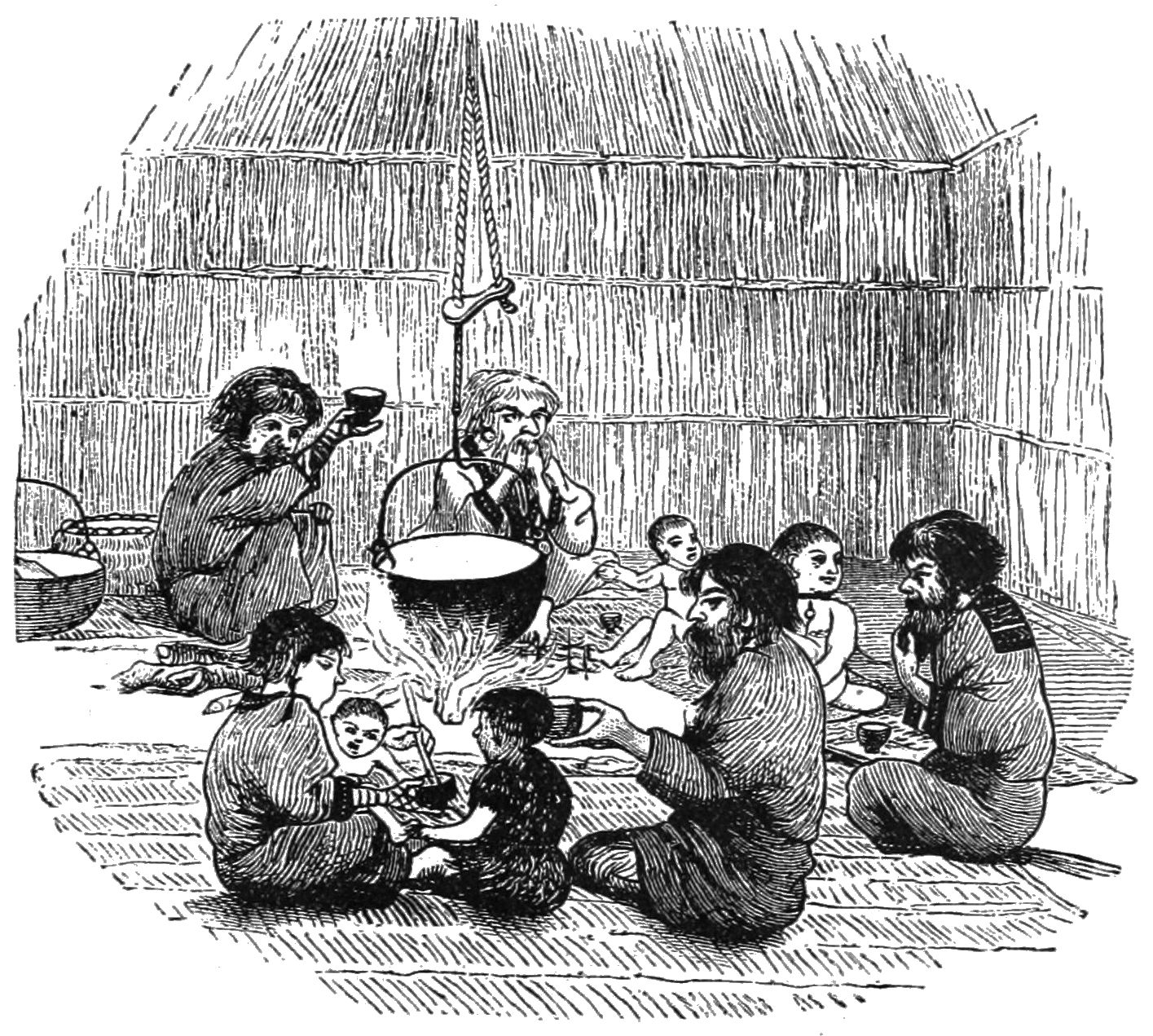 Ainu at home